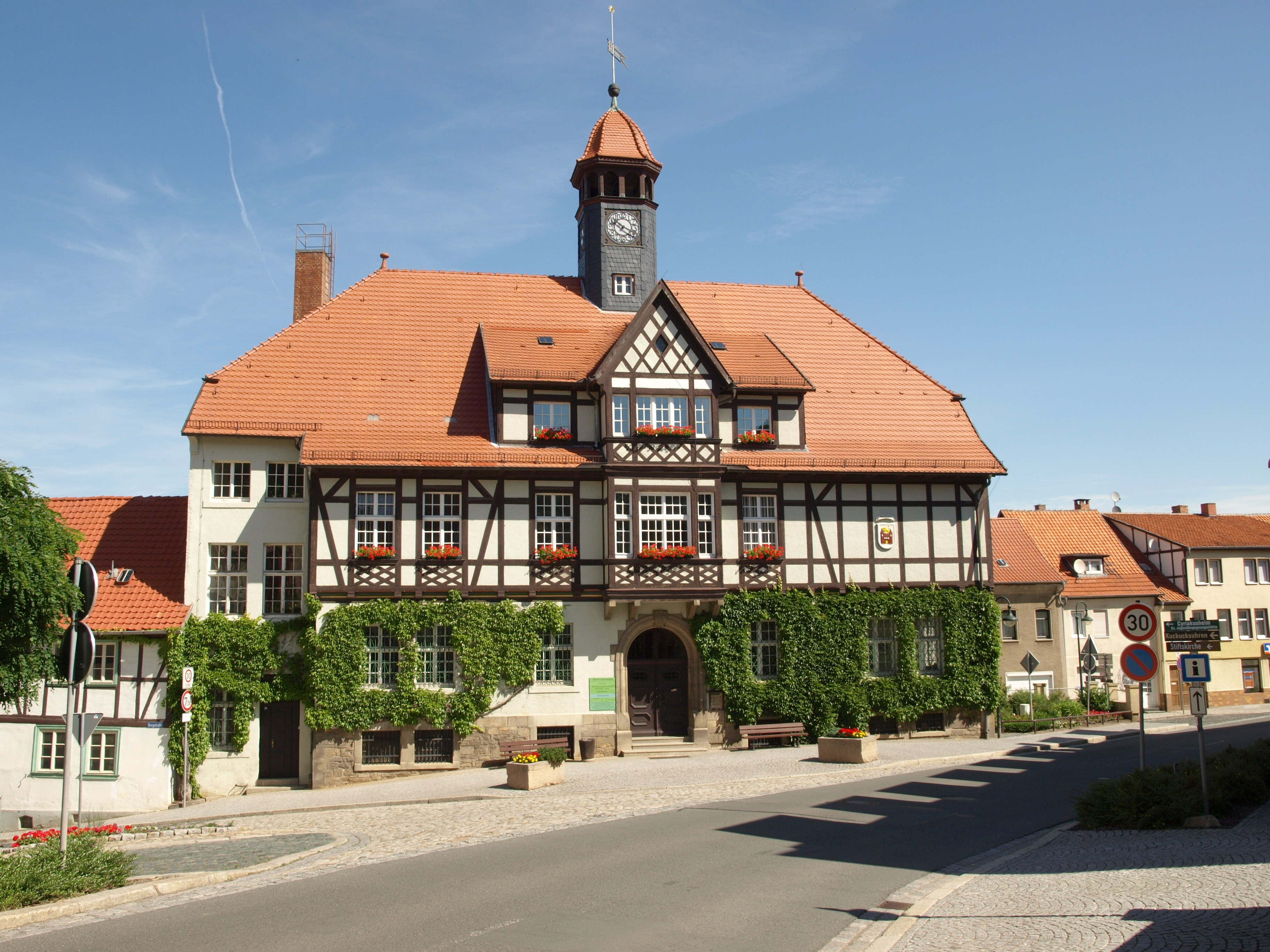 Town hall of Gernrode, Saxony-Anhalt